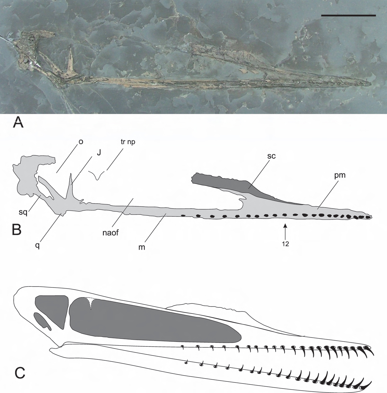 Cuspicephalus scarfi MJMG K1918. A, Original skull on slab of mudstone, Lacking the mandible and dentition; B, outline diagram of preserved bone. Light grey is bone, dark grey is fibrous bone of sagittal crest, black is dental alveoli where unambiguous; C restoration of skull outline, with hypothetical lower jaw. Scale bar = 50 mm. Abbreviation: j, jugal; naof, nasoantorbital fenestra; m, maxilla; o, orbit; pm, premaxilla; q, quadrate; sc, sagittal crest; sq, squamosal; tr np, trace of nasal process.